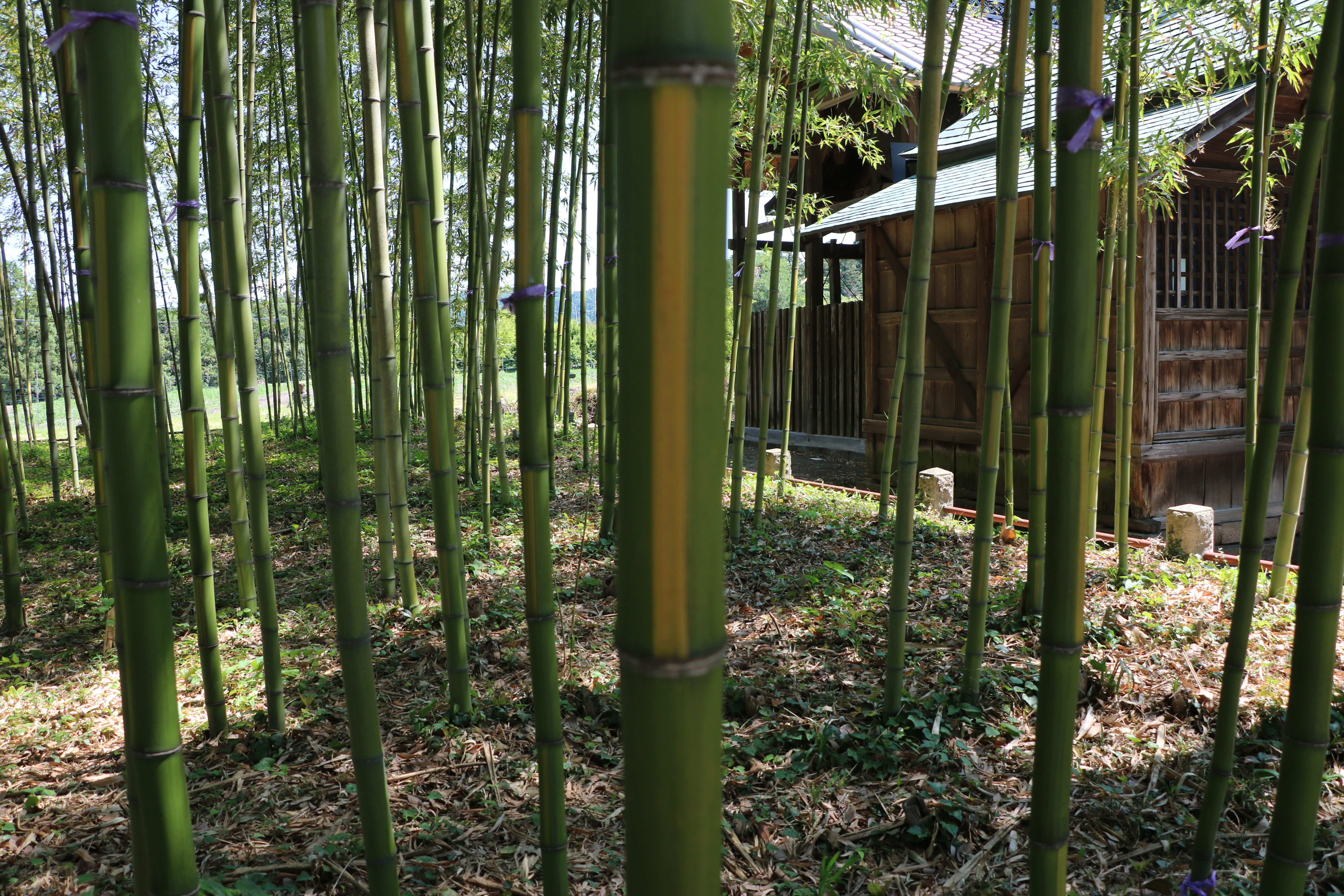 Shikishima no Kinmeichiku Castilloni-inversa at Shikishima